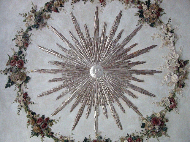 Pilsrundāle, Latvia: Sun on ceiling.